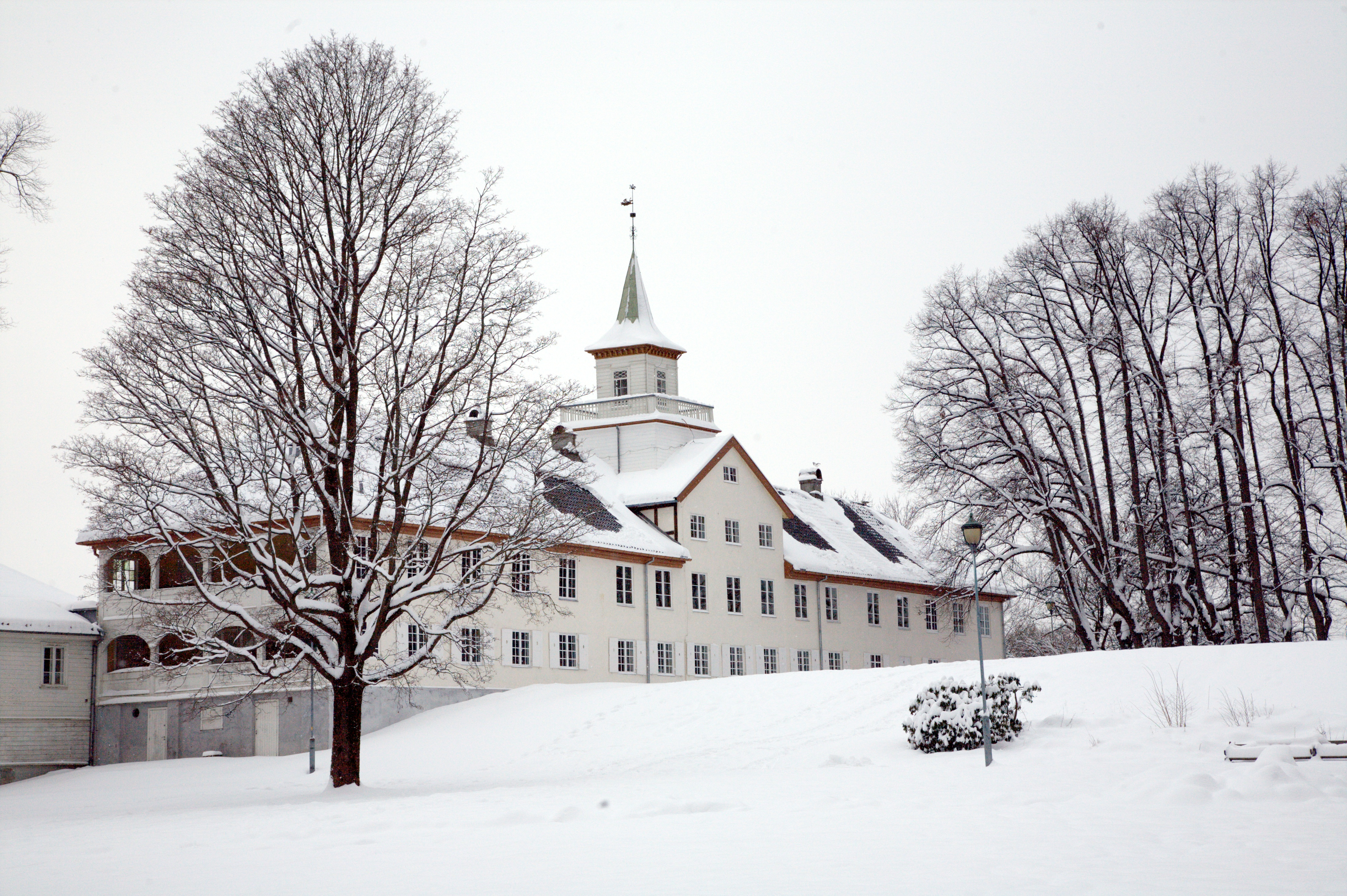 Frogner Hovedgård in winter